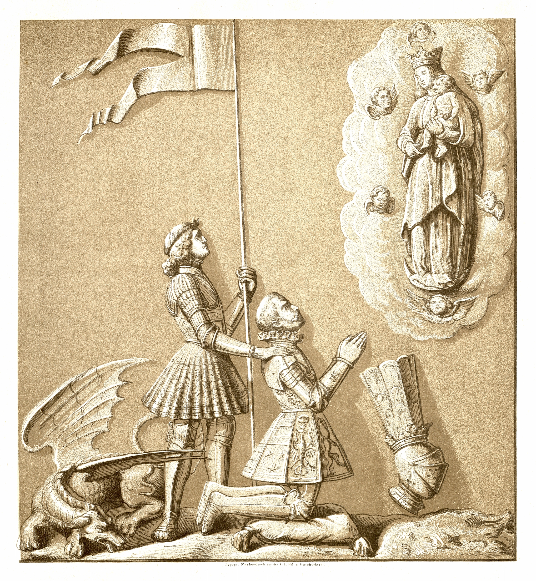 Bilder aus einem Artikel aus den Mittheilungen der kaiserl. königl. Central-Commission zur Erforschung und Erhaltung der Baudenkmale Band 2, 1857.(siehe PDF-Dokument) Scanprojekt Bundesdenkmalamt Österreich This scan or this PDF-file was created within the Austrian Wikipedia-project Denkmalpflege Österreich (German only) supported by Wikimedia Germany and Wikimedia Austria as part of the Wikipedia community-project to collect public domain documents from the library of the Heritage Monuments Board of Austria. This document describes or depicts an object which is located in Austria today. Texts are written in German language. Send requests for uncompressed scans to Hubertl. This work is in the public domain in the United States, and those countries with a copyright term of life of the author plus 100 years or less. This file has been identified as being free of known restrictions under copyright law, including all related and neighboring rights.